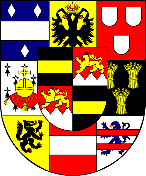 Coat of arms (shield only) of Franz de Paula Maria Karl Erwin cardinal von Schönborn - Buchheim - Wolfsthal, bishop of České Budějovice, Czech republic (1883 - 1885), archbishop of Prague (1885 - 1899).